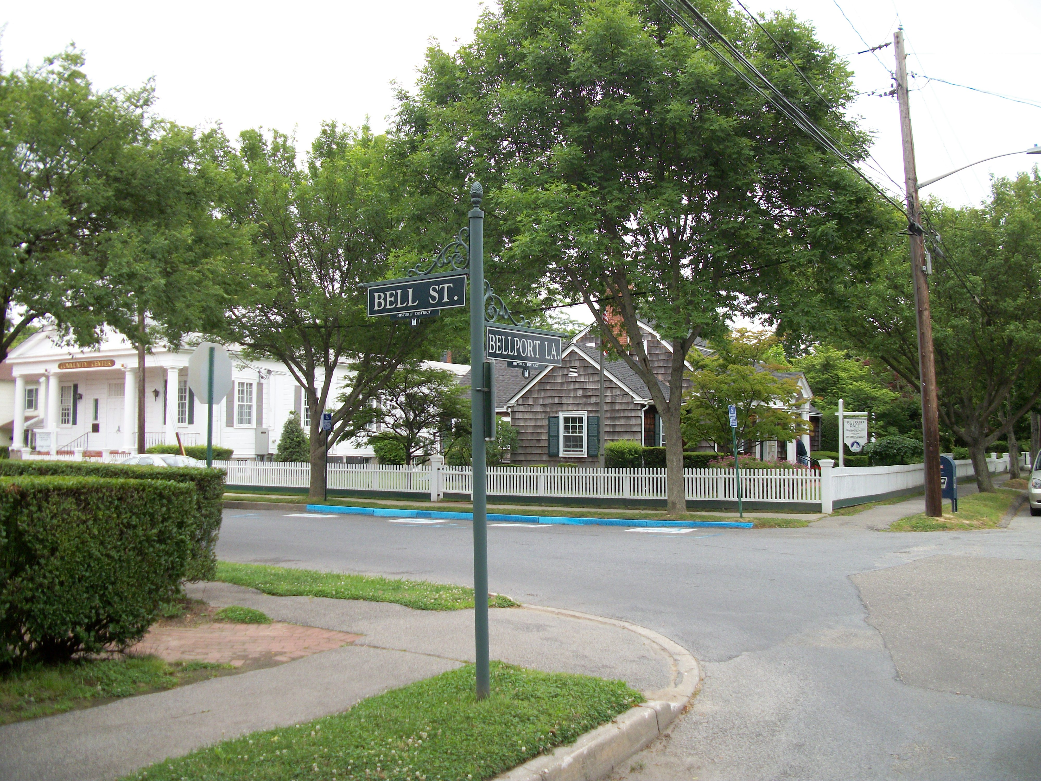 Bellport Village Hall and some two other historic structures in the Bellport Village Historic District (formerly known as the "Bell Street Historic District") on the corner of Bell Street and Bellport Lane in Bellport, New York. This corner is only a fraction of the district.